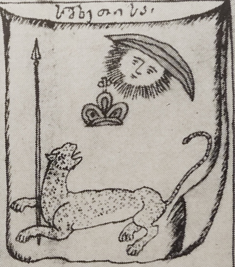 Banner of Somkheti according to Vakhusti.